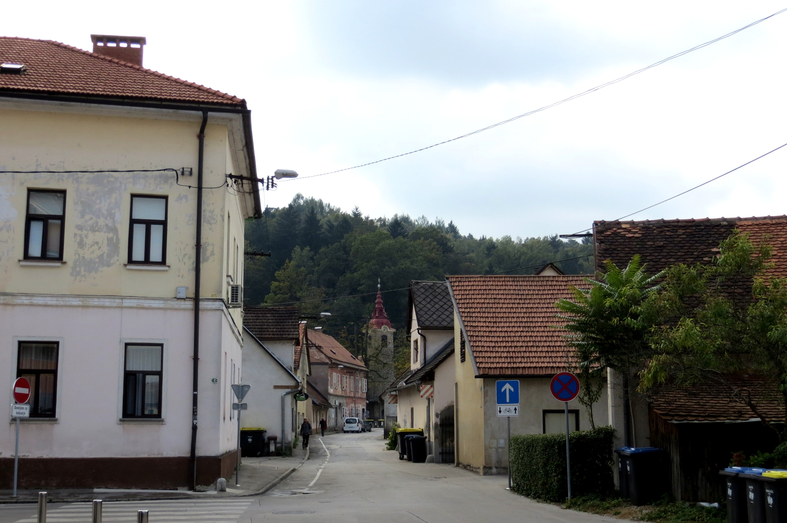 Old core of Spodnja Šiška, City of Ljubljana, Slovenia